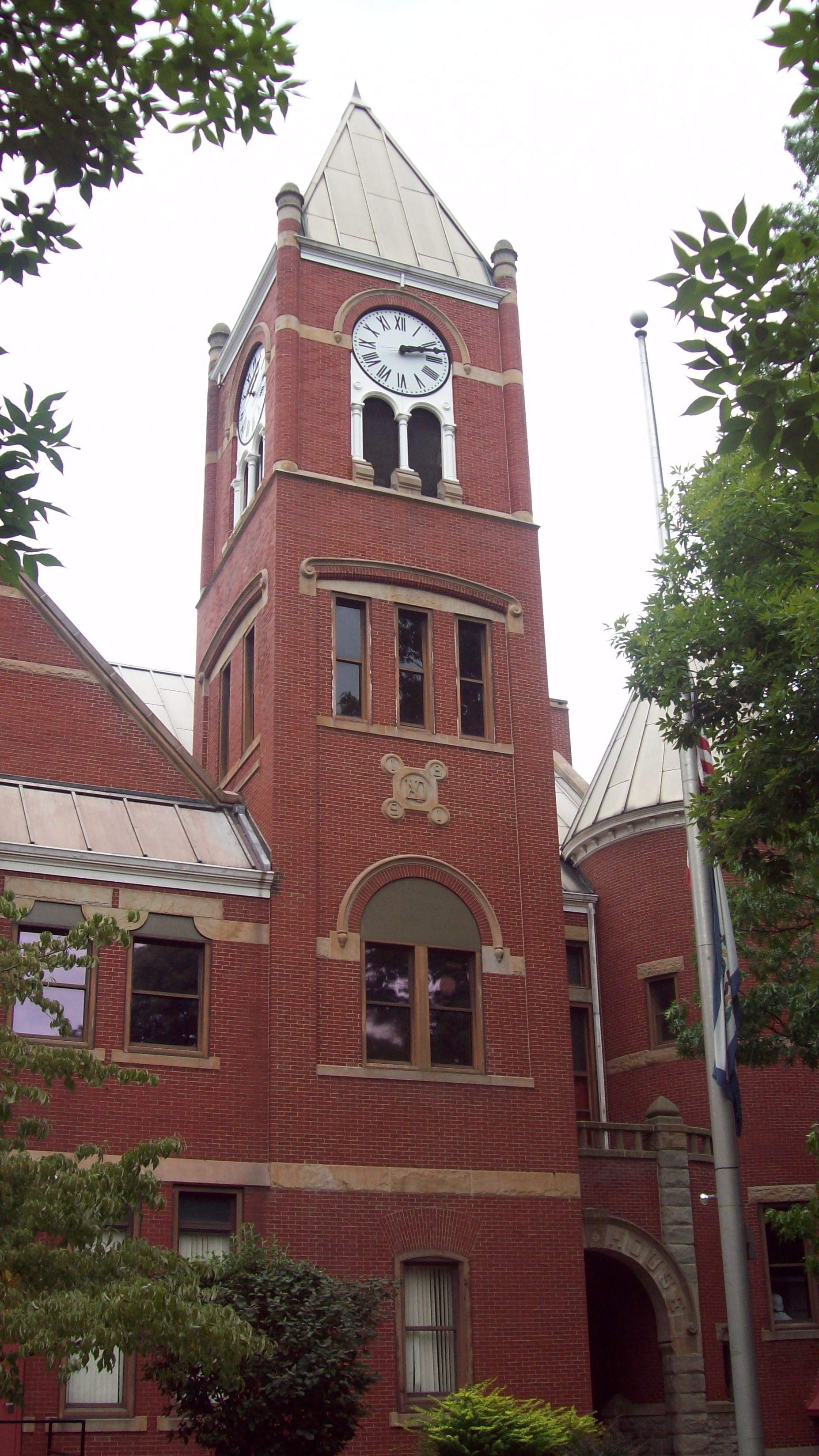 Monongalia County Courthouse